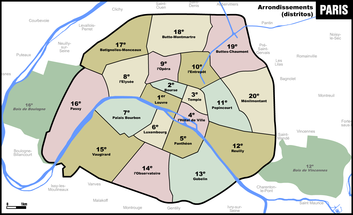 Districts of Paris, with names